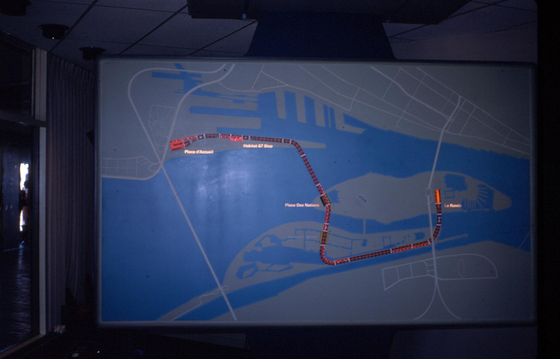 Model board at Expo Express control center at Place d' Accueil, in Cité du Havre, showing line layout.